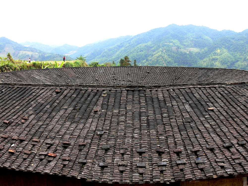 Lambda insertion technique used in the roof of Fujian Tulou, to compensate for larger circumference at outside.